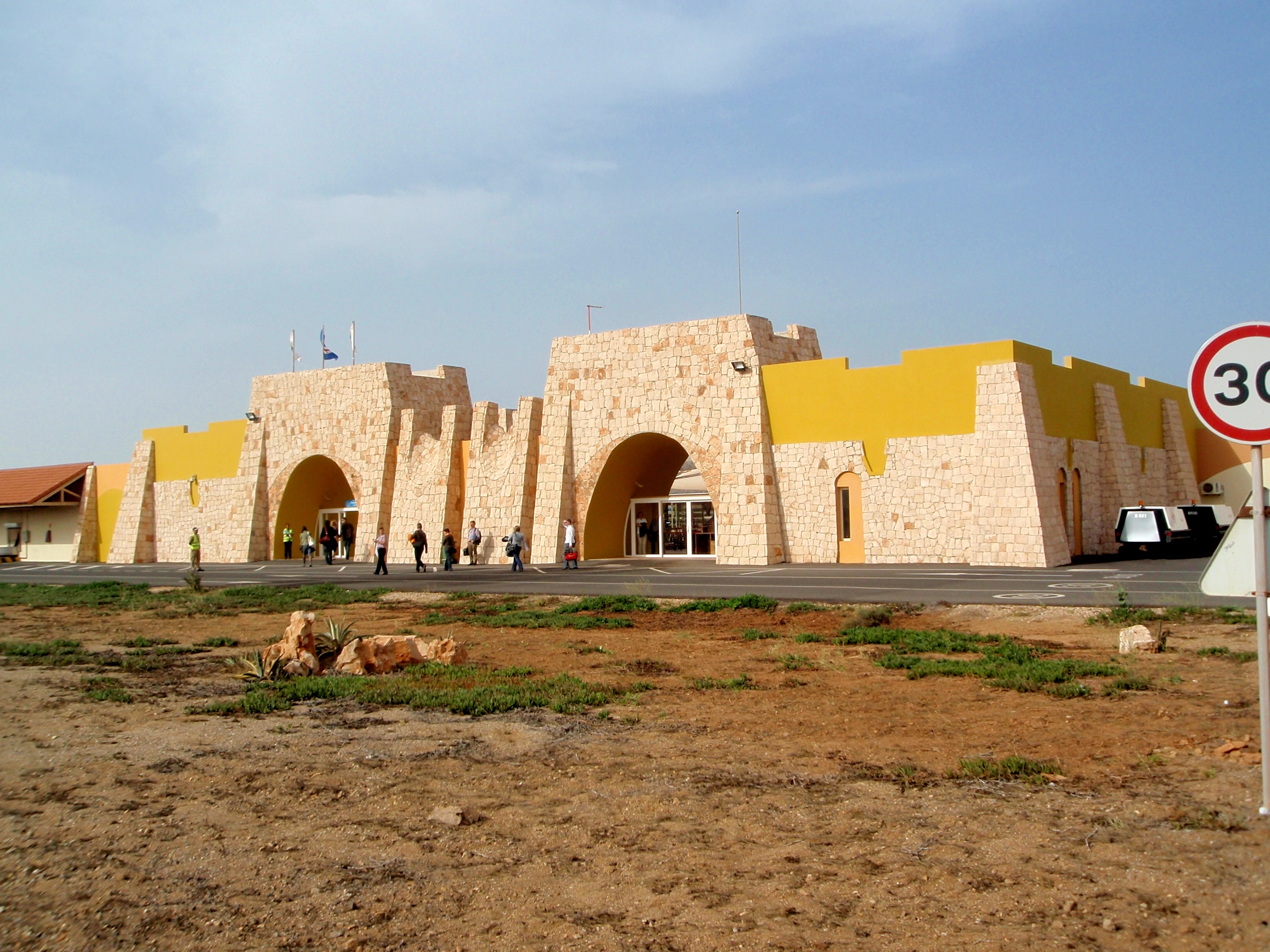 Rabil Airport, Boa Vista, Cape Verde